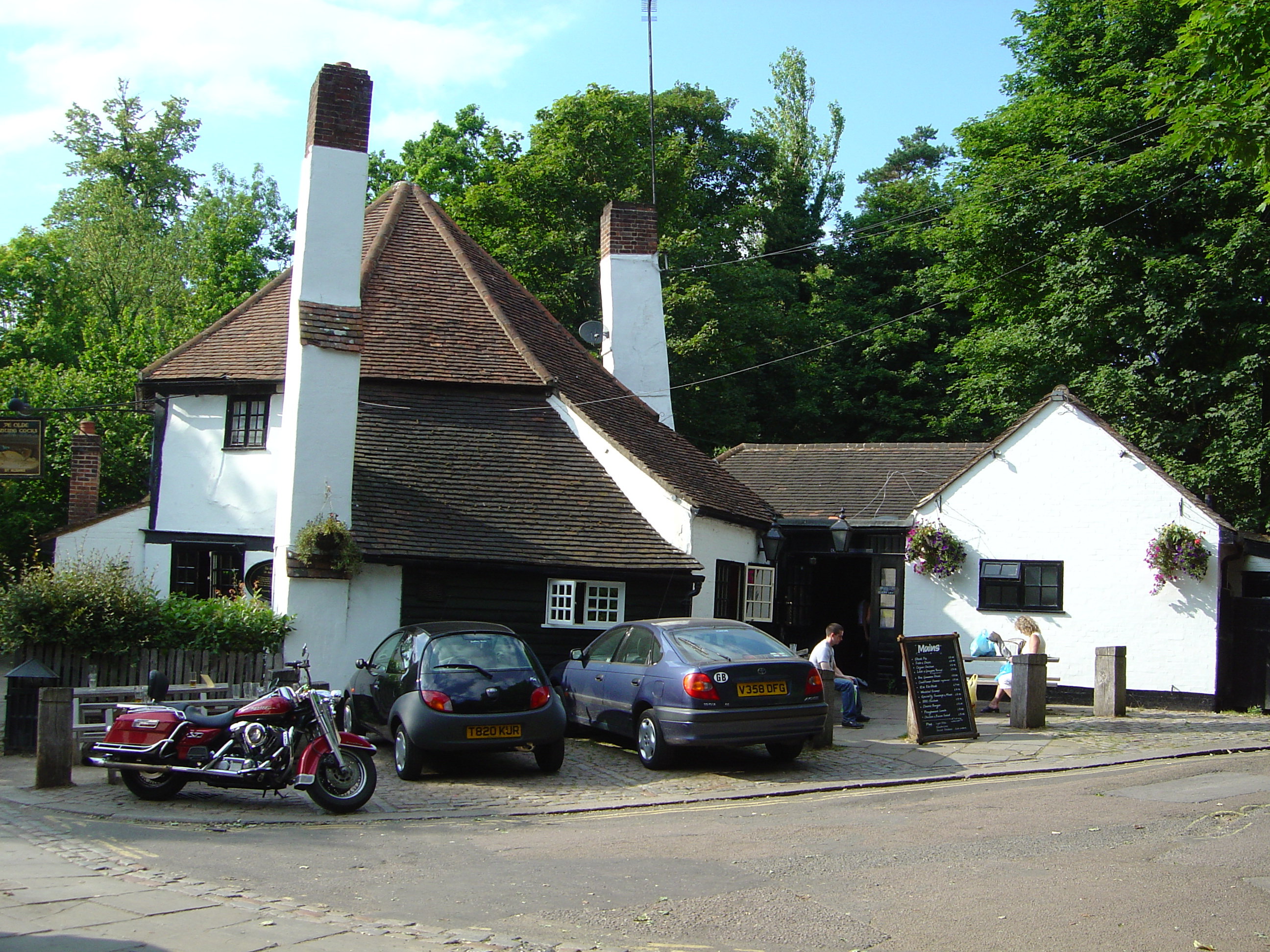 Ye Olde Fighting Cocks (reputed England's oldest pub) in St Albans